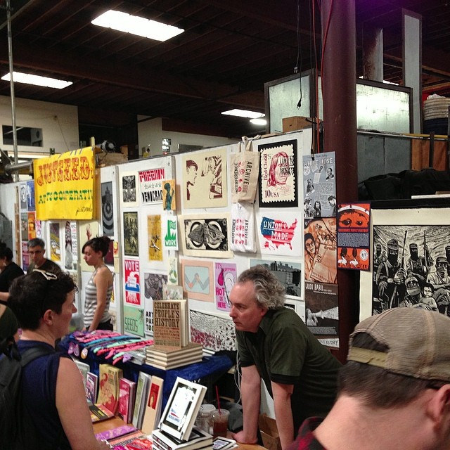 Anarchist Book Fair at the Crucible in Oakland. Ends at 6. Come visit the Justseeds table! #printmaking #justseeds